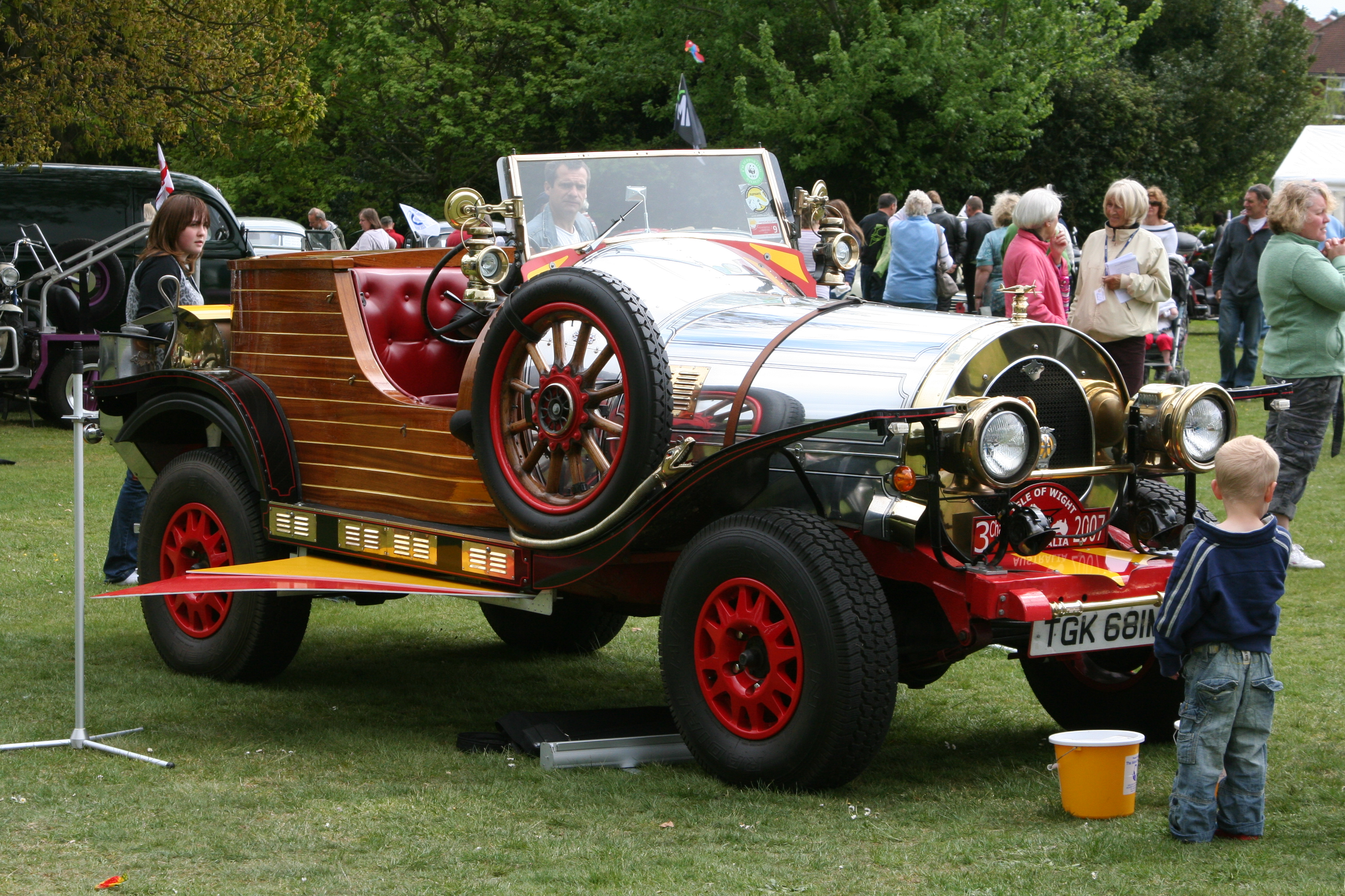 The car from the movie Chitty Chitty Bang Bang at the Cowes Rotary St. George's day event in Northwood Park.